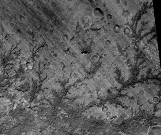 Antoniadi Crater Inverted Dendritic Stream Channels, as seen by hirise. Location is 21.5 degrees north latitude and 61.1 degrees east longitude. Image was taken by the Mars Reconnaissance Orbiter's HiRISE. The HiRISE camera was built by Ball Aerospace and Technology orporation and is operated by the University of Arizona. Image courtesy NASA/JPL/University of Arizona.